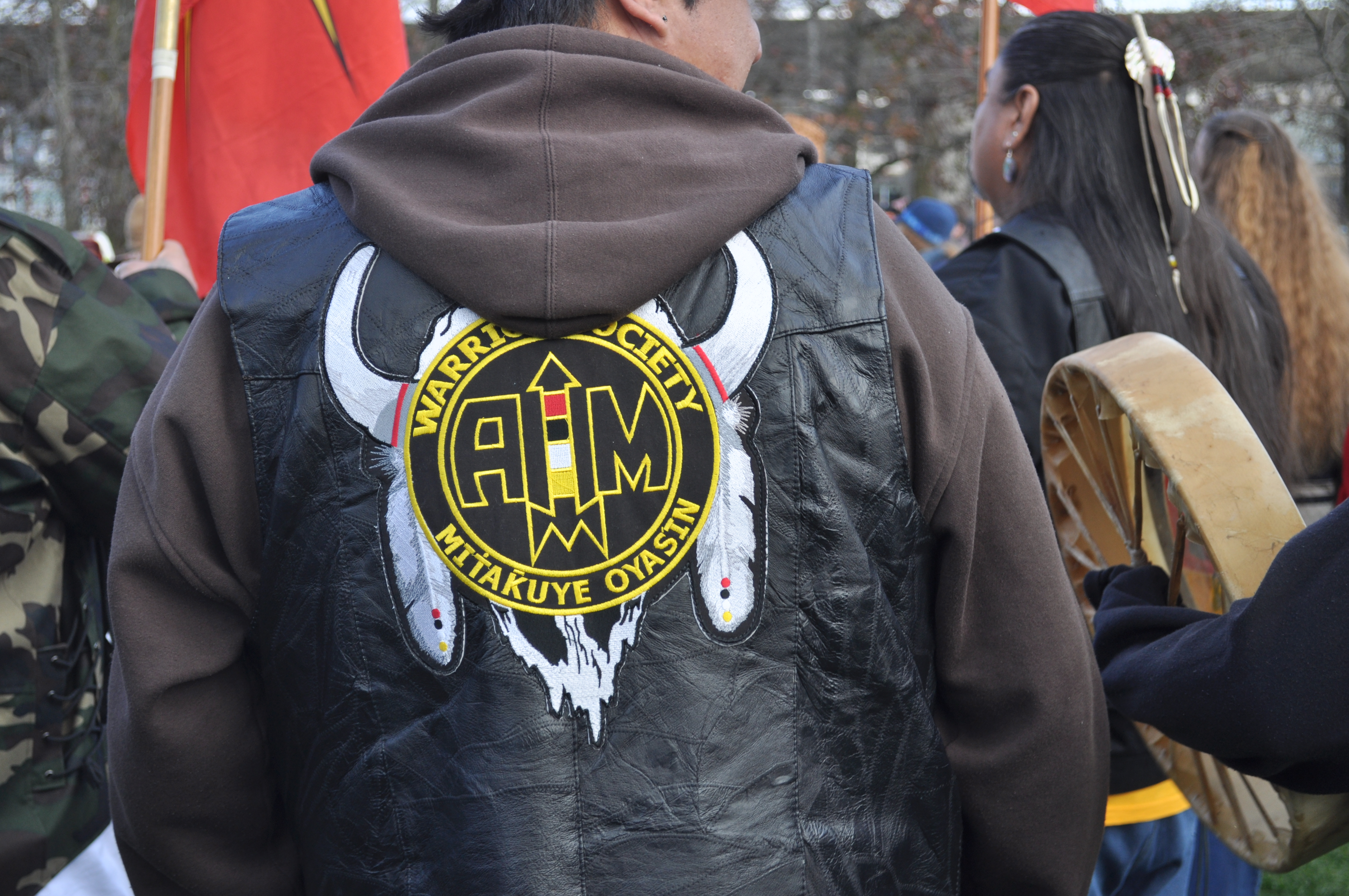 A member of the Warrior Society Mitakuye Oyasin wears an AIM jacket at the raising of the John T. Williams Memorial Totem Pole, Seattle Center